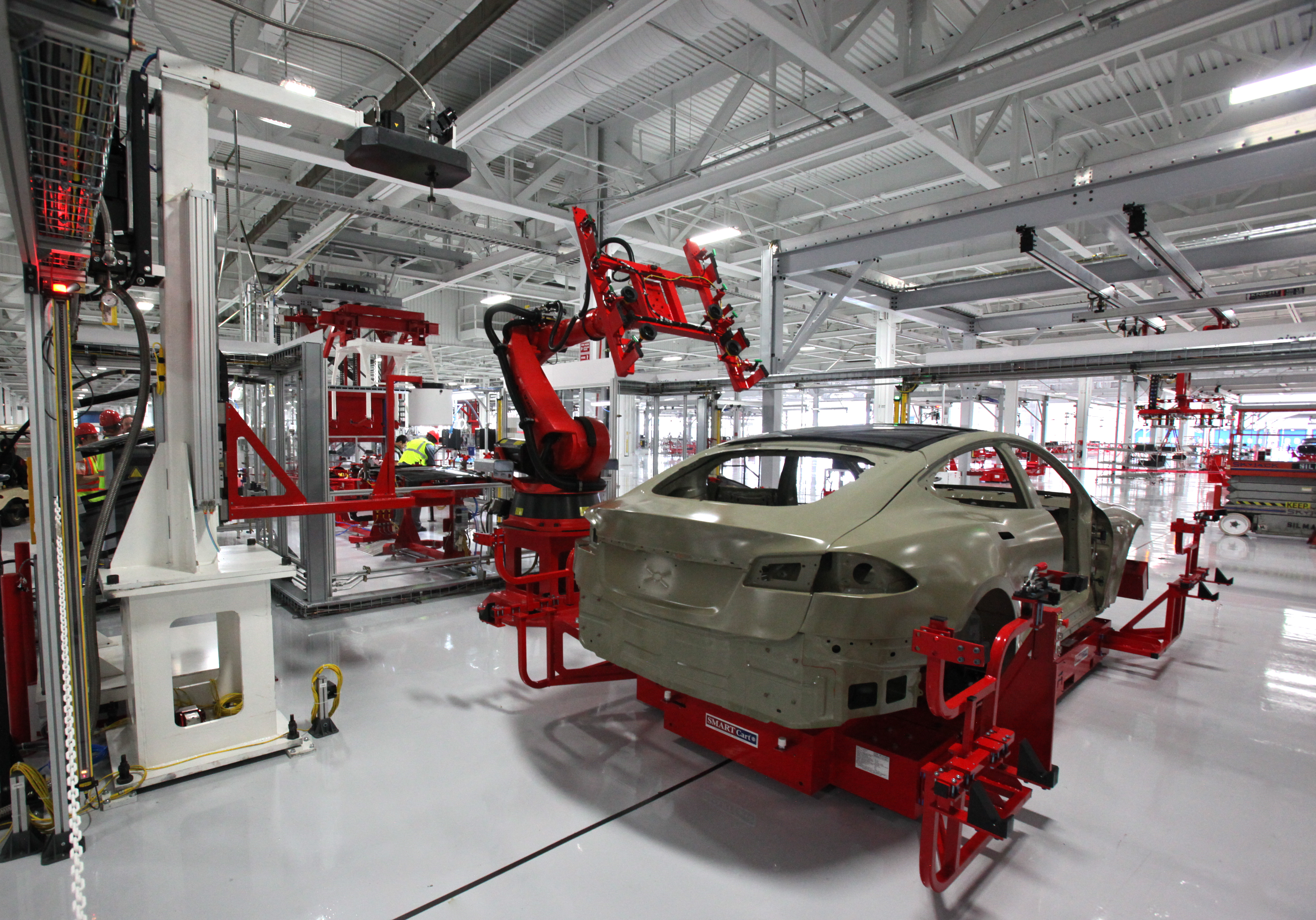 a factory tour after the Model S drive on the track. This one installs the laminated glass roof. It's amazing how much brighter the factory looks after the floor has been epoxied white, just like they have at SpaceX... and Ironman =)